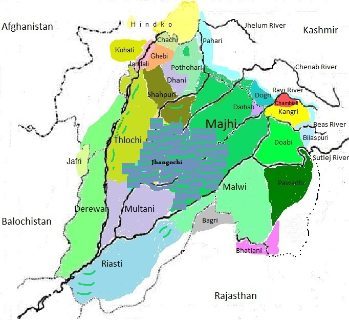 Corrected the real proportion representation of Jhangochi or Jaangli dialect.